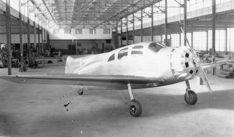 PictionID:46534662 - Catalog:Array - Title:Array - Filename:AL-248A_040 Spartan 7X NX13984.tif - Robert Reedy was a native of Amarillo Texas. He attended college in Wichita Kansas, studying aeronautical engineering. On graduation he was quickly snapped up by Stearman Aircraft. During his subsequent career he made stops at Lockheed, Thorp and back to Lockheed where he retired as a vice president of sales. Reedy was involved in the design of several Stearman, Vega and Thorp types, the Lockheed P2V, Little Dipper, Big Dipper, and L-1011.--Please Tag these images so that the information can be permanently stored with the digital file.---Repository: San Diego Air and Space Museum